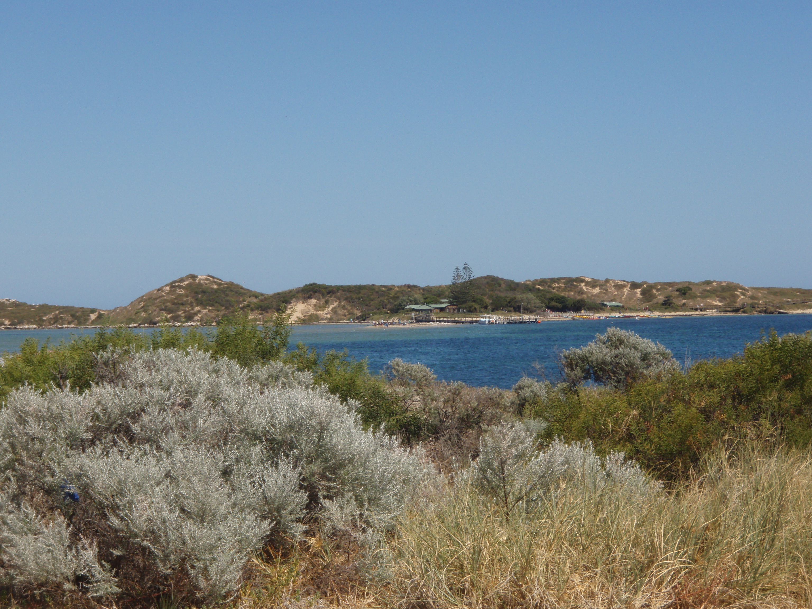 A Photo of Penguin Island looking West